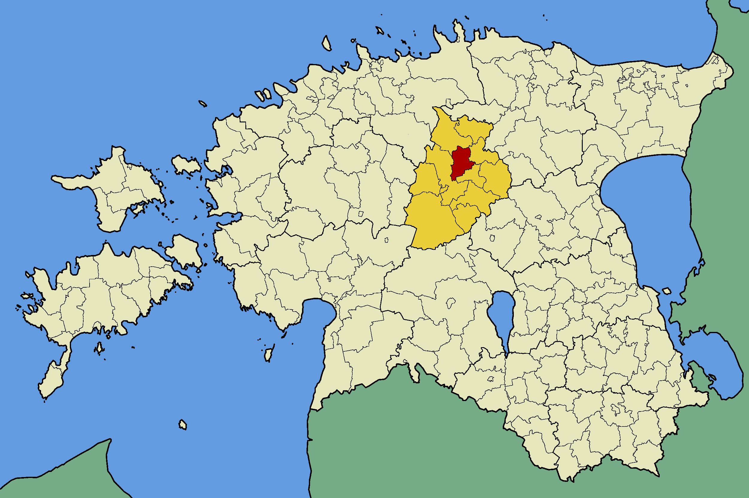 Map of Estonia with borders of municipalities (parishes). Järva county and Roosna-Alliku municipality emphasized.